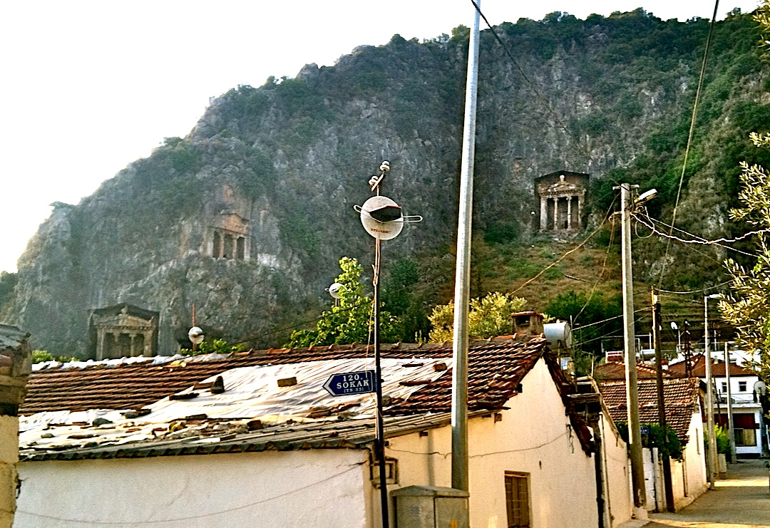 The tombs date from about 400BC and reflect the wooden architecture of Lycia. August 2011